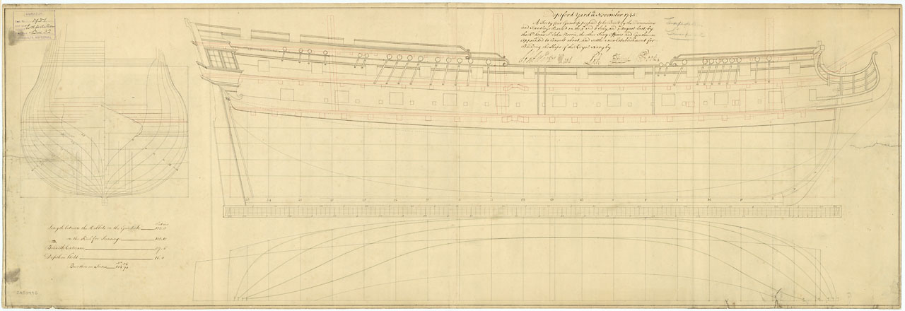 Plan showing the body plan, sheer lines with some inboard detail, and longitudinal half-breadth proposed (and approved) for a new 44-gun Ship. The plan was later used for Expedition (1747), a 1745 Establishment, 44-gun Fifth Rate, two-decker. However, the plan will also relate to Penzance (1747), Crown (1747), Rainbow (1747), Humber (1747), and Woolwich (1749). Signed by John Holland [Master Shipwright, Woolwich Dockyard, 1742-1746], Joseph Allen/Allin [Master Shipwright, Deptford Dockyard, 1742-1746], John Pook [Master Shipwright, Sheerness Dockyard, 1742-1751 (died)], Pierson Lock [Master Shipwright, Portsmouth Dockyard, 1742-1755 (died)], and John Ward [Master Shipwright Dockyard, 1732-1752].